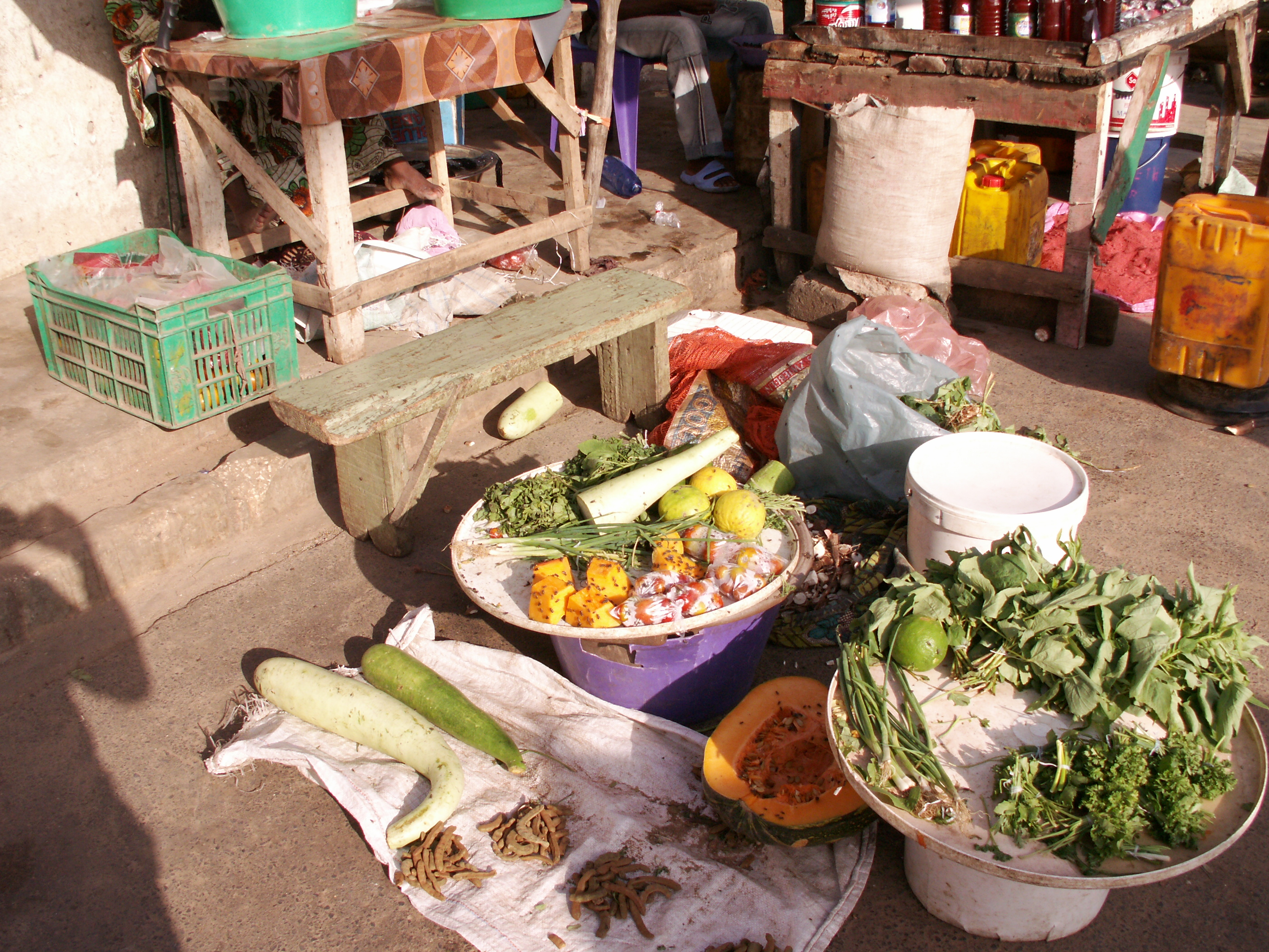 Vegetables on the market at Mbour, Senegal